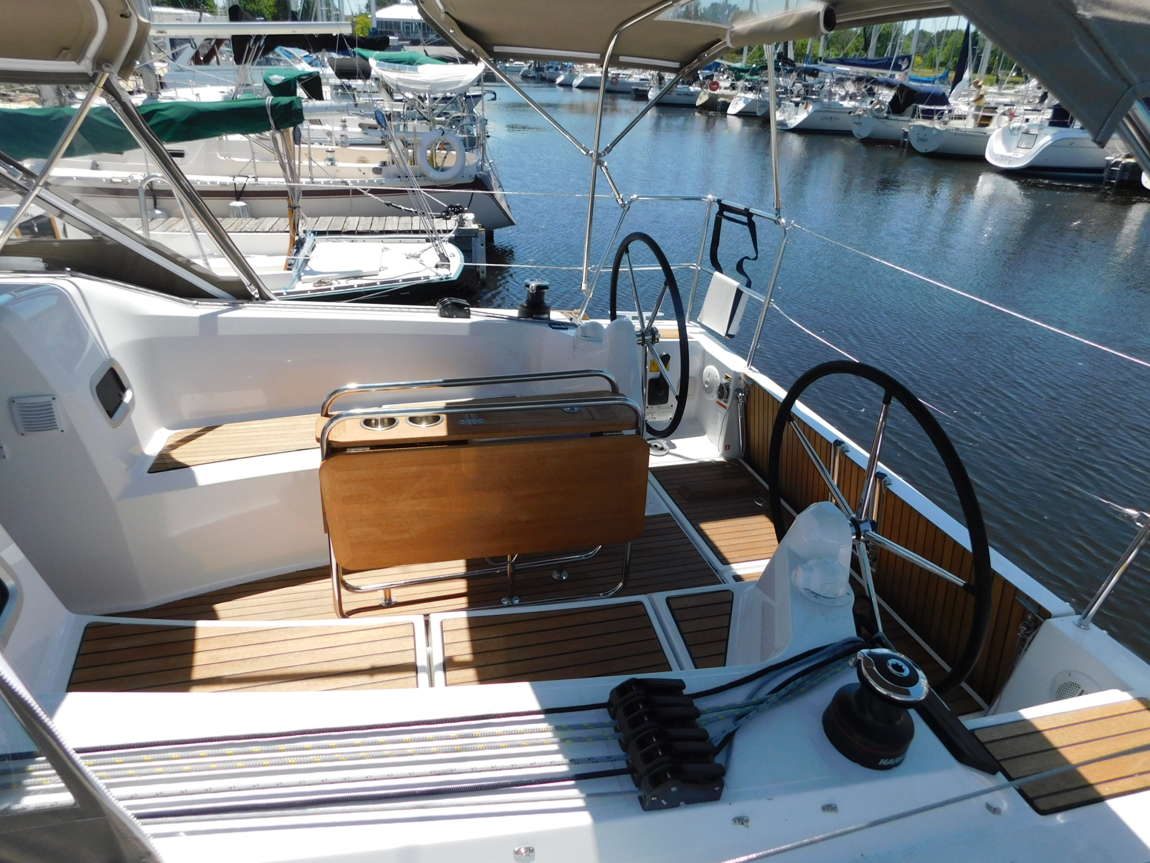 Cockpit of a Jeanneau Sun Odyssey 349 sailboat named French Kiss.